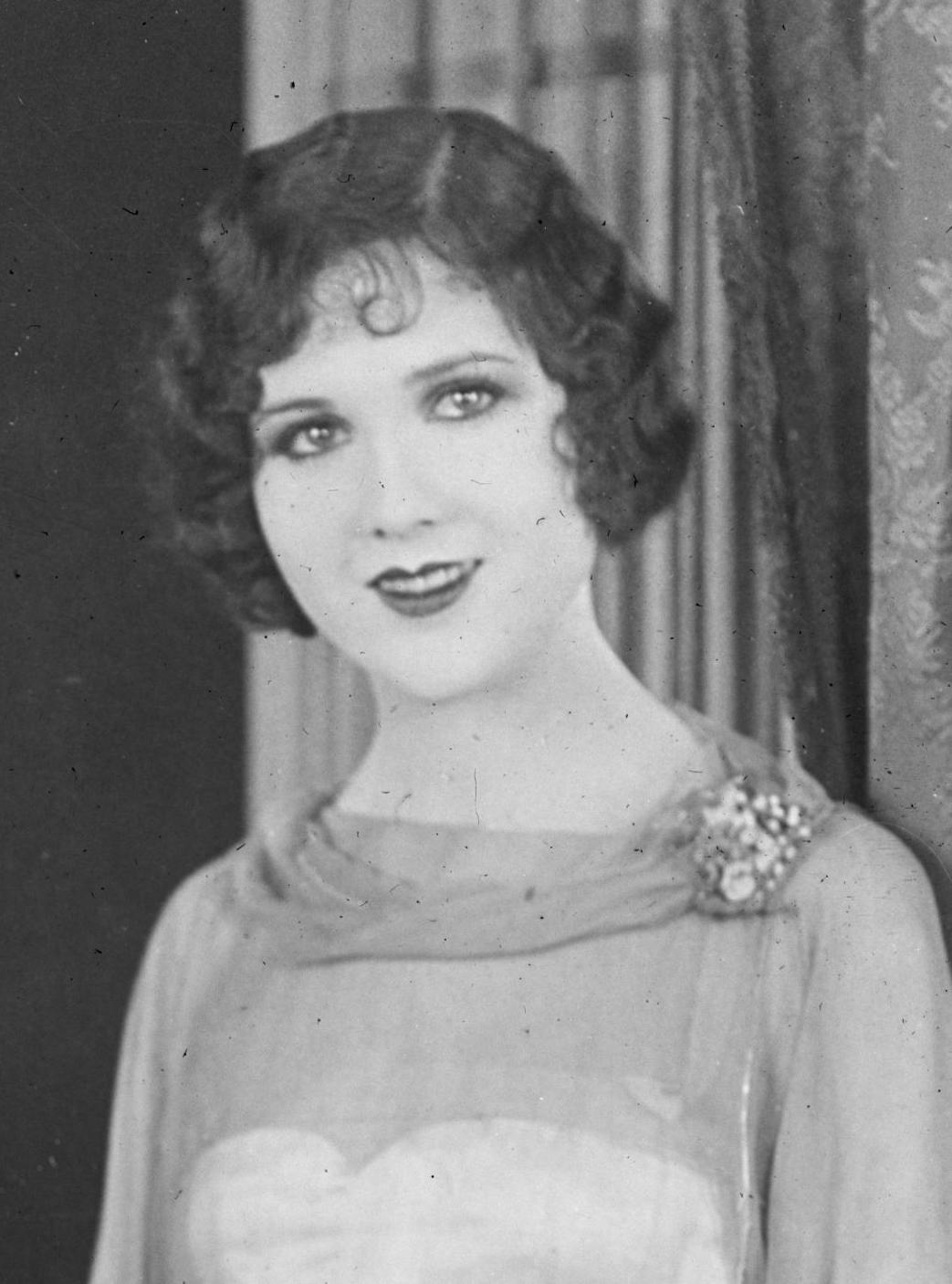 Mary Brian (1906-2002), American actress